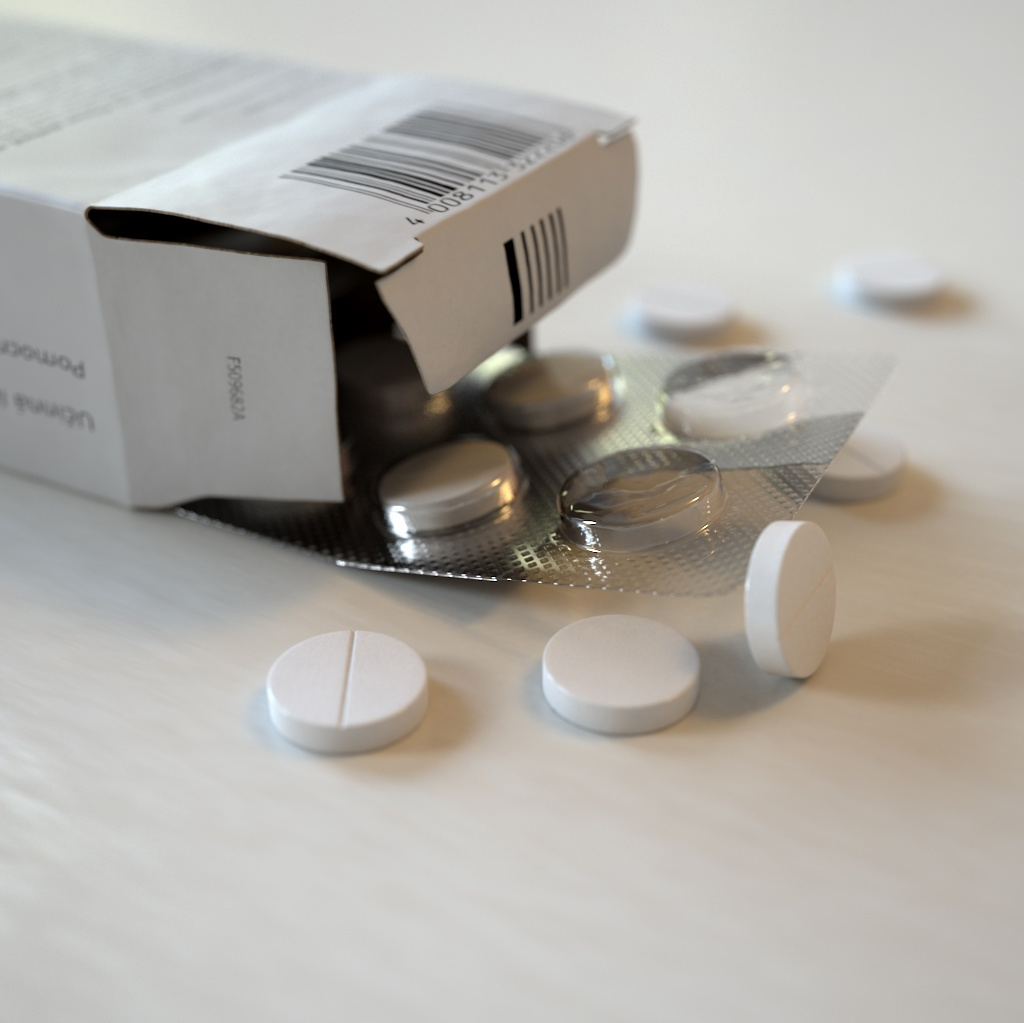 Render of bunch of pills done in 3ds MAX and V-Ray using Irradiance caching